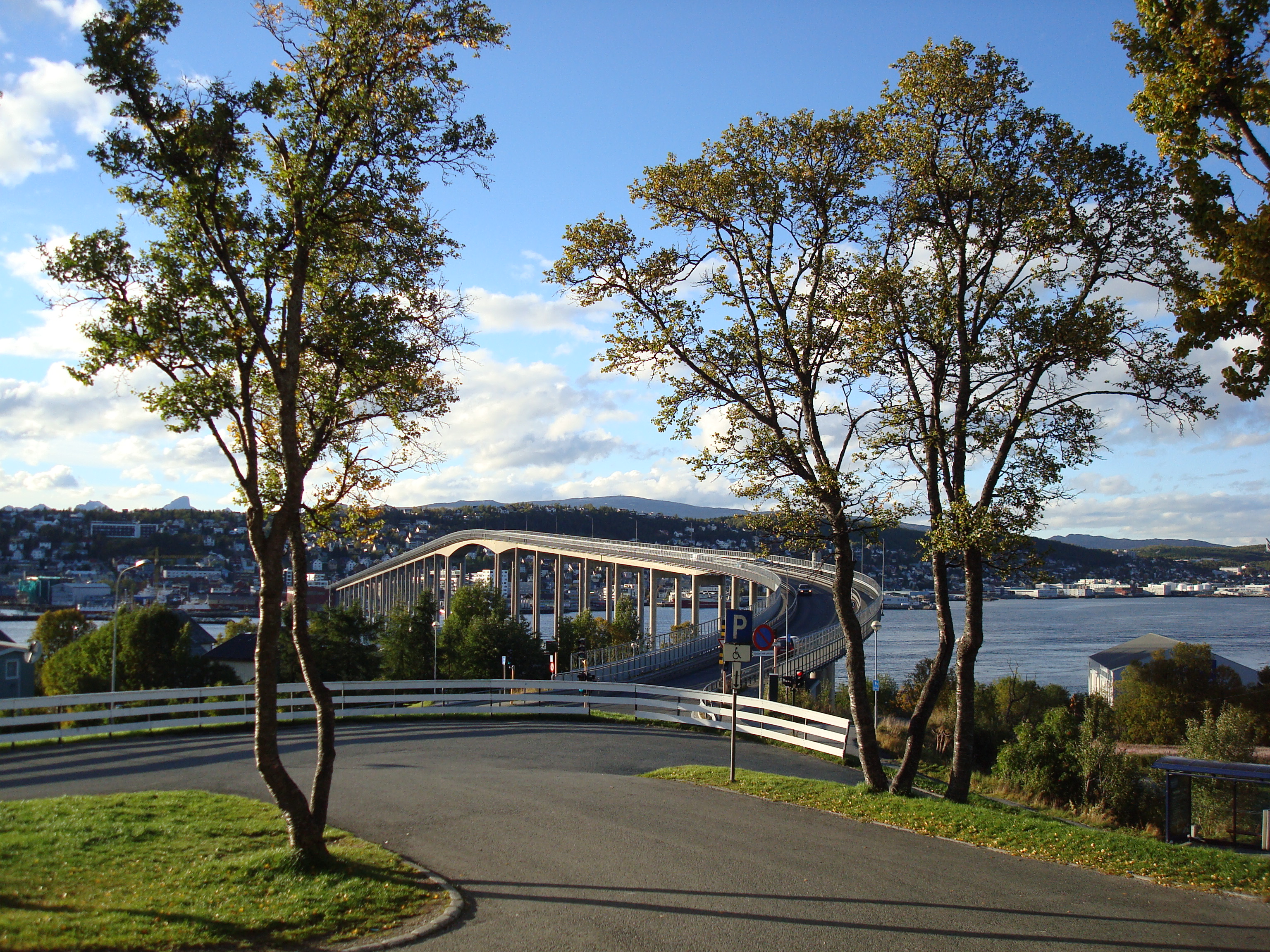 Tromsø Bridge (taken from in front of Tromsdalen Church)